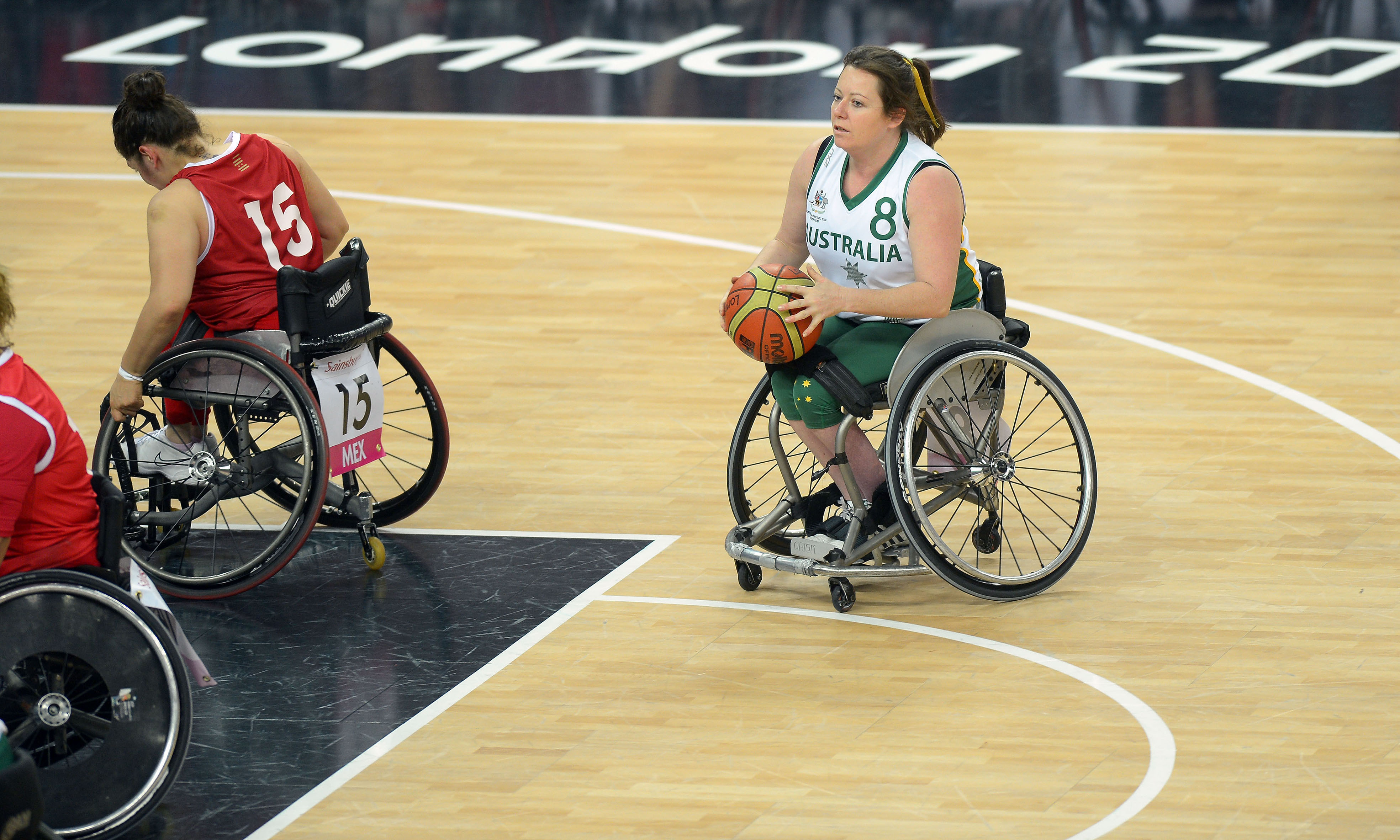 Photograph of Australian Paralympic team member Tina McKenzie at the 2012 Summer Paralympic Games in London